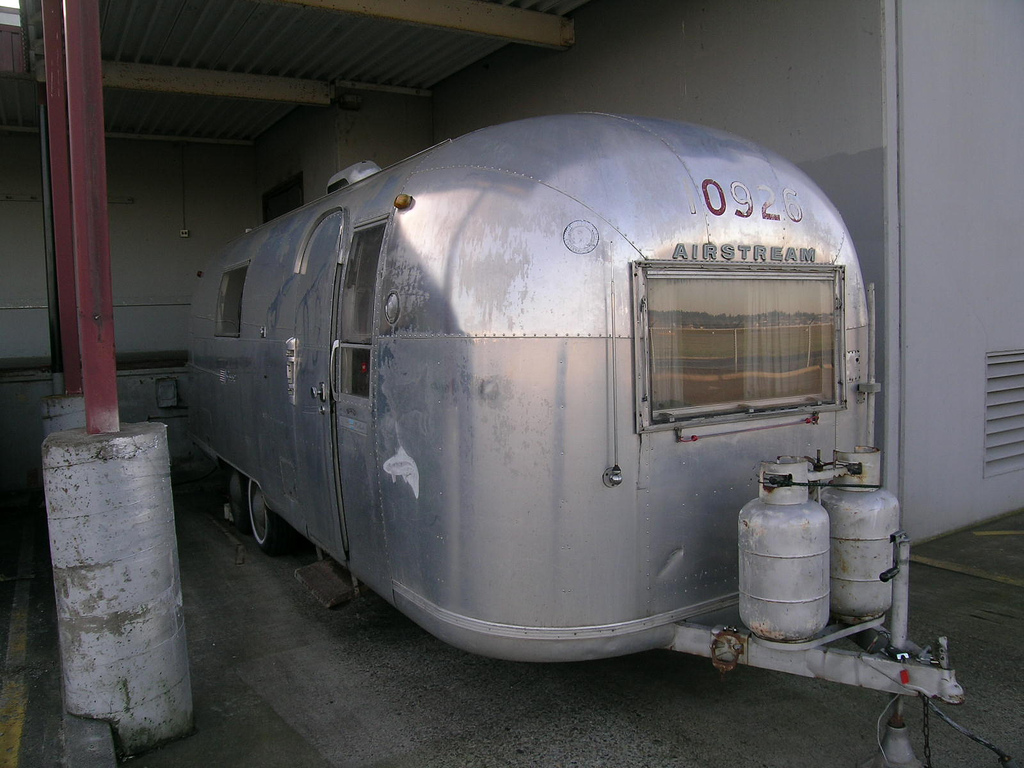 Airstream recreational vehicle. Original title: "1966 Airstream Overlander International"